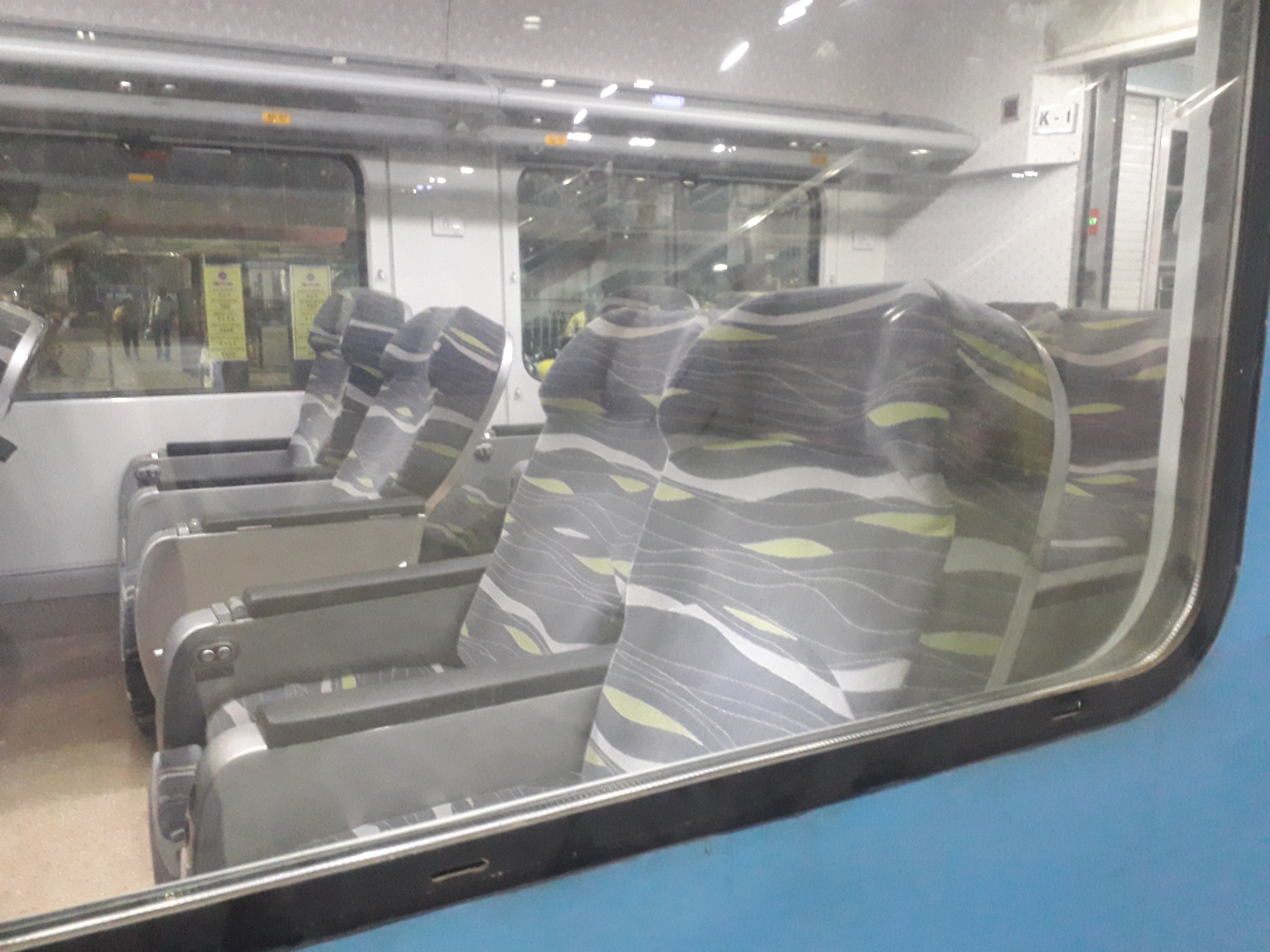 Mumbai Central Ahmedabad Shatabdi Express - Anubhuti coach - Interior